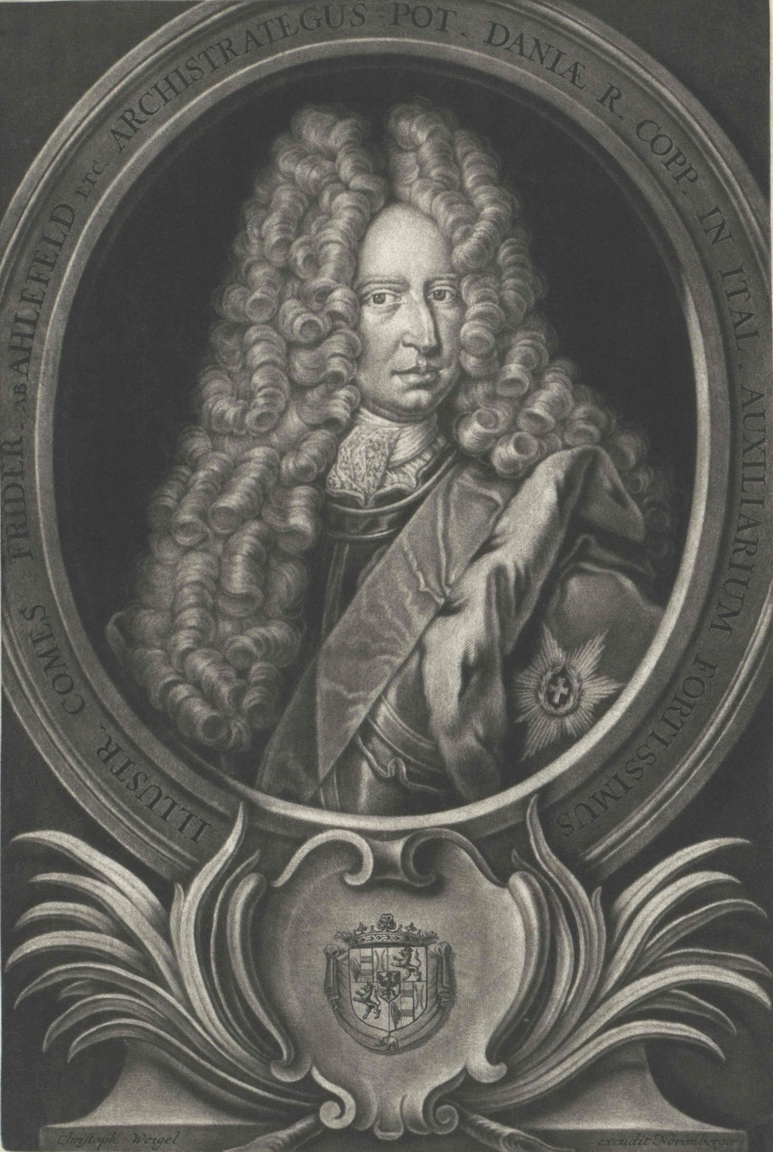 Frederik Ahlefeldt (1662-1708)